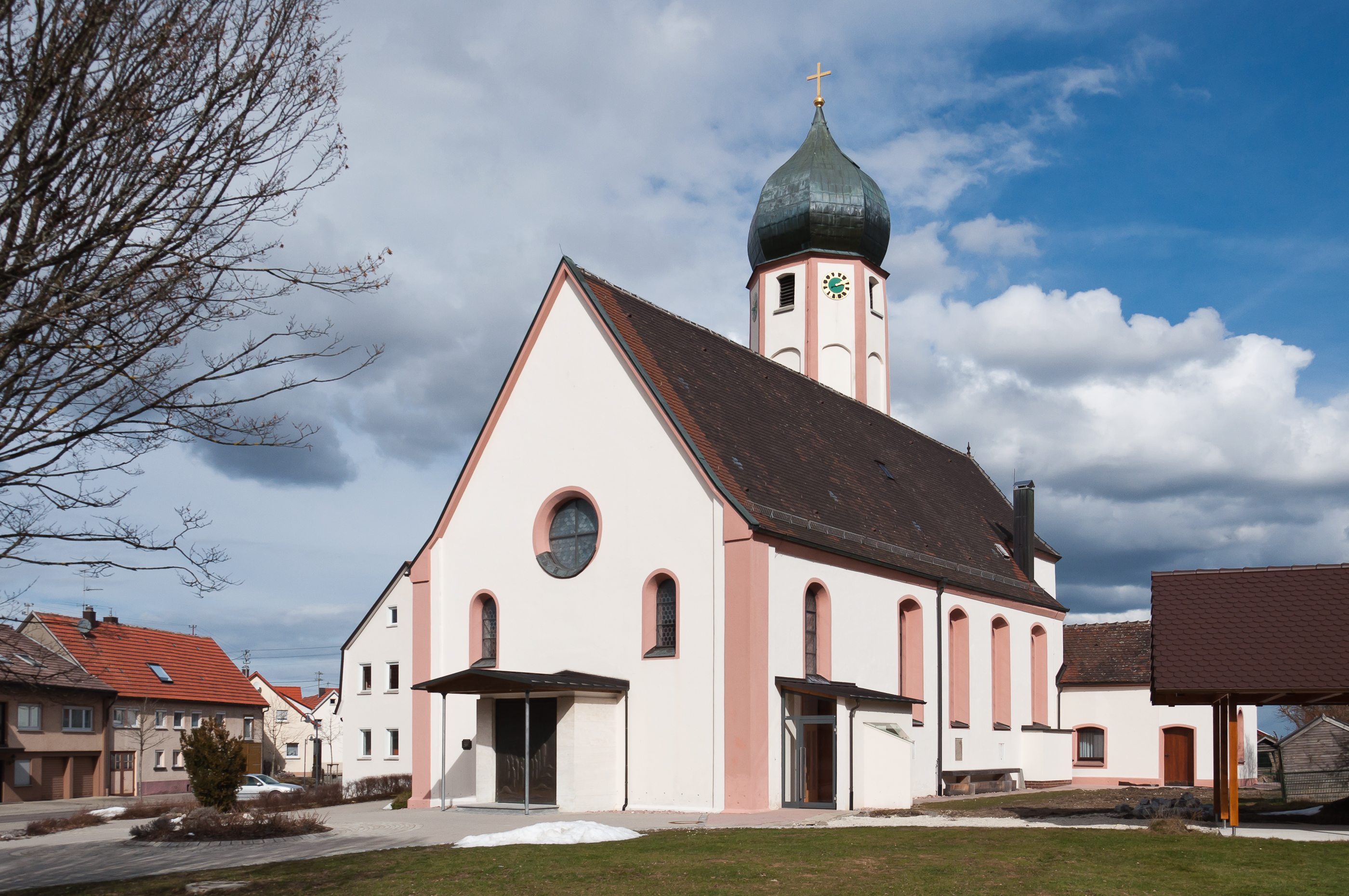 Parish church St. Silvester (1617) in Frohnstetten, Municipality Stetten am kalten Markt, Baden-Württemberg, Germany.